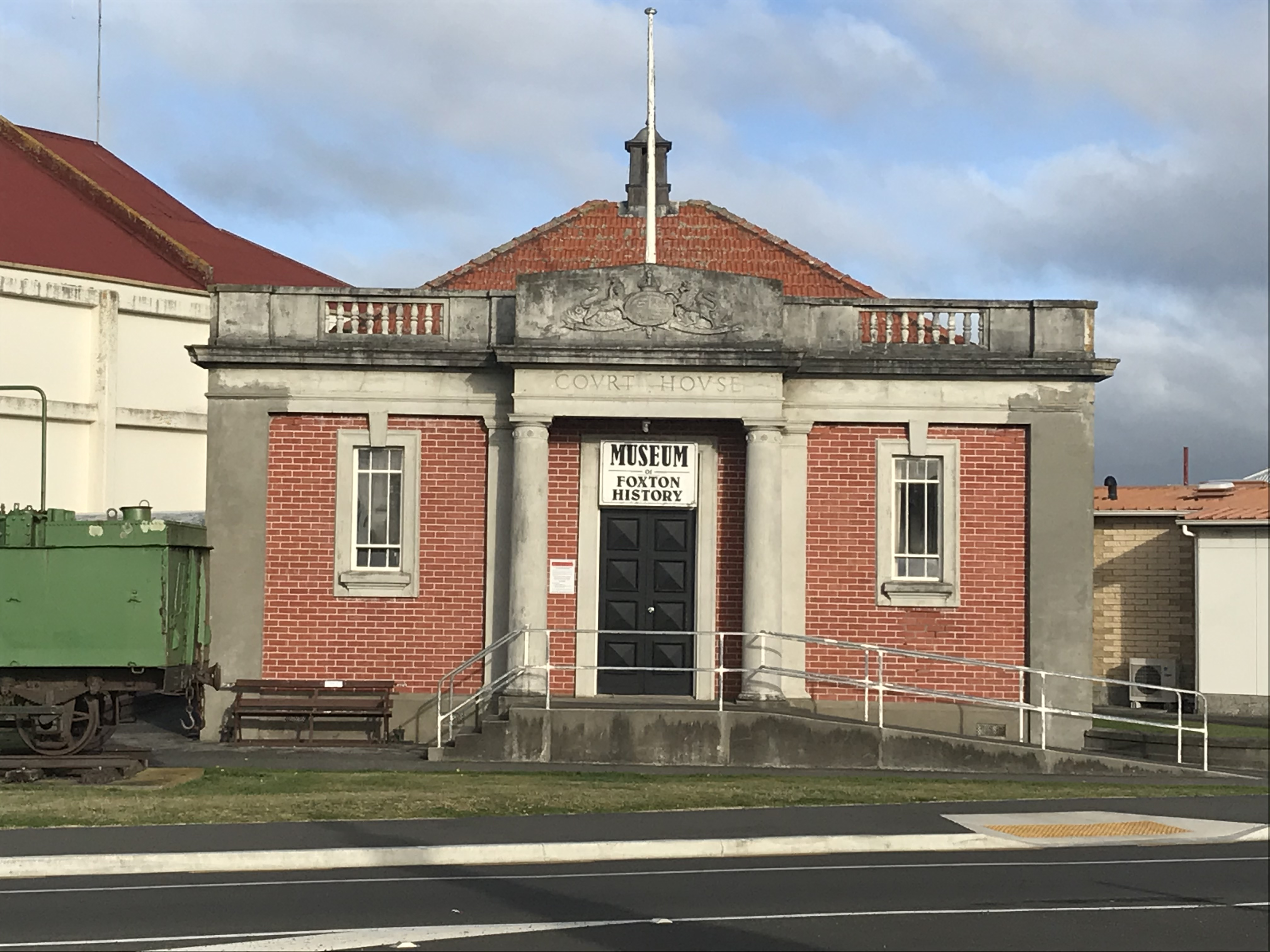 Constructed in 1929 this historic building in Foxton, New Zealand ceased to be a courthouse in 1971 and subsequently became the home of the Foxton Museum. The building was closed in 2013 by the Horowhenua District Council as it was an earthquake risk.